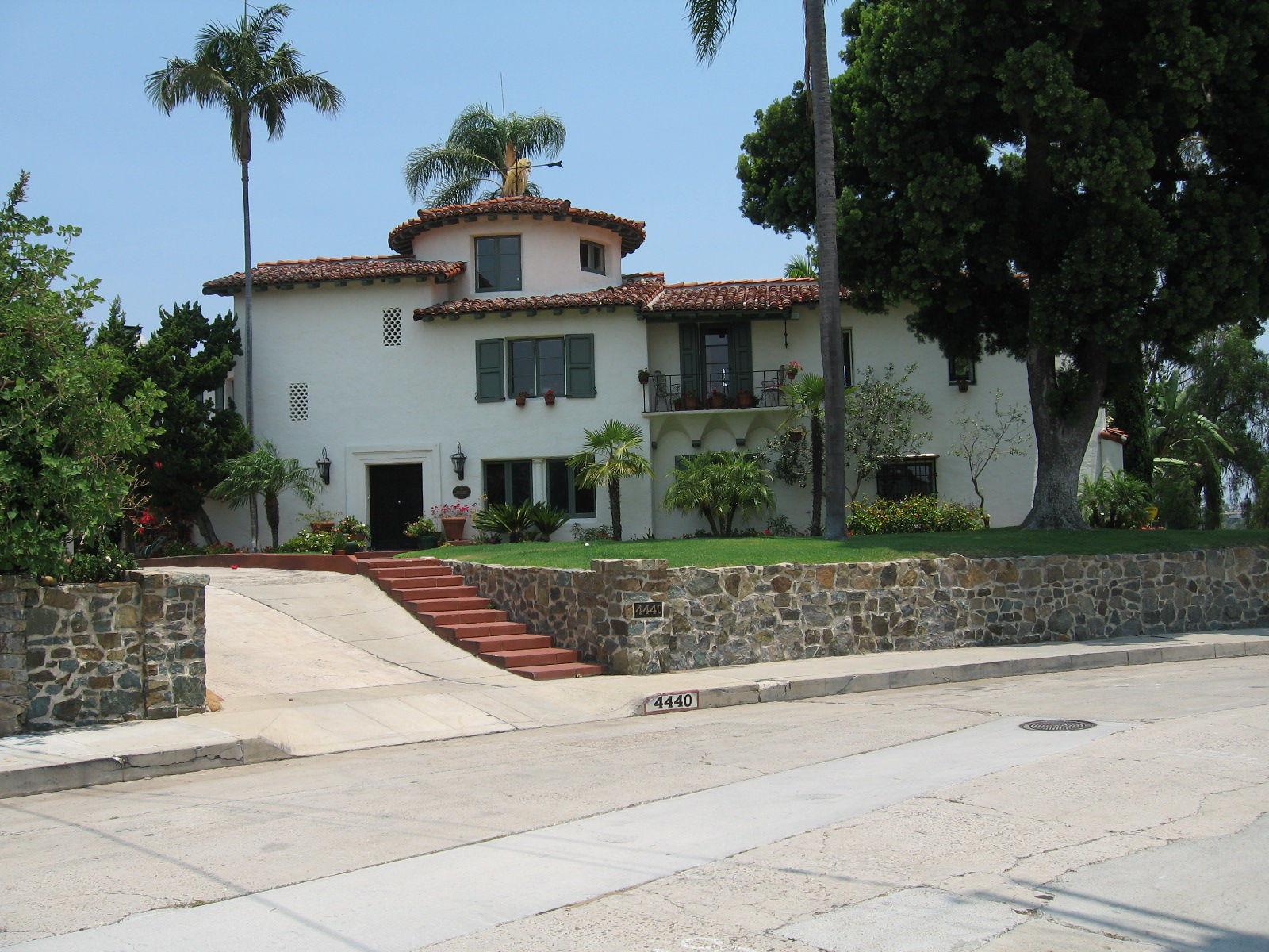 Picture of Beth Sarim: House of the Princes, built to be inhabited by the expected resurrected Old Testament Patriarchs and used as a winter home for Judge Joseph F. Rutherford, Watchtower president (1917-1942), who gave the religious group the name "Jehovah's Witnesses." The house was built in 1929 and sold by the Watchtower Society in 1948. The house has been designated Historical Landmark number 474 by the City of San Diego. Location is 4440 Braeburn Rd, San Diego CA 92116.